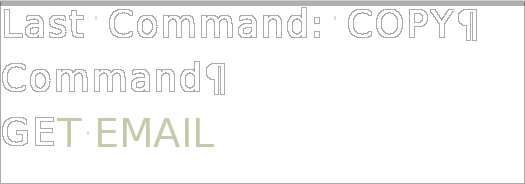 In Archy, command names are filled in as the user types. In this example, Archy has filled in the first command name that starts with the letters "ge".